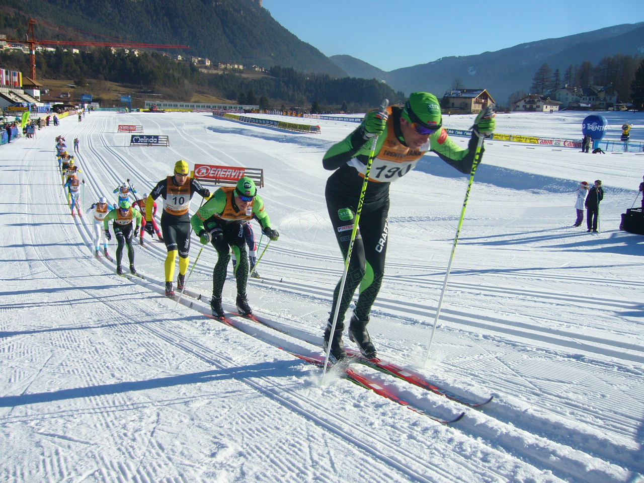 Marcialonga 2011 at Lago di Tesero Cross-Country Ski Stadium